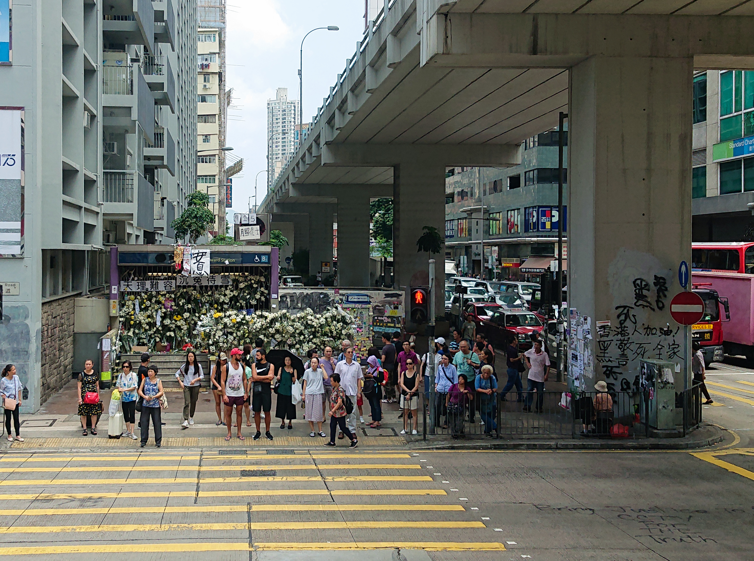 Prince Edward Station Exit B1